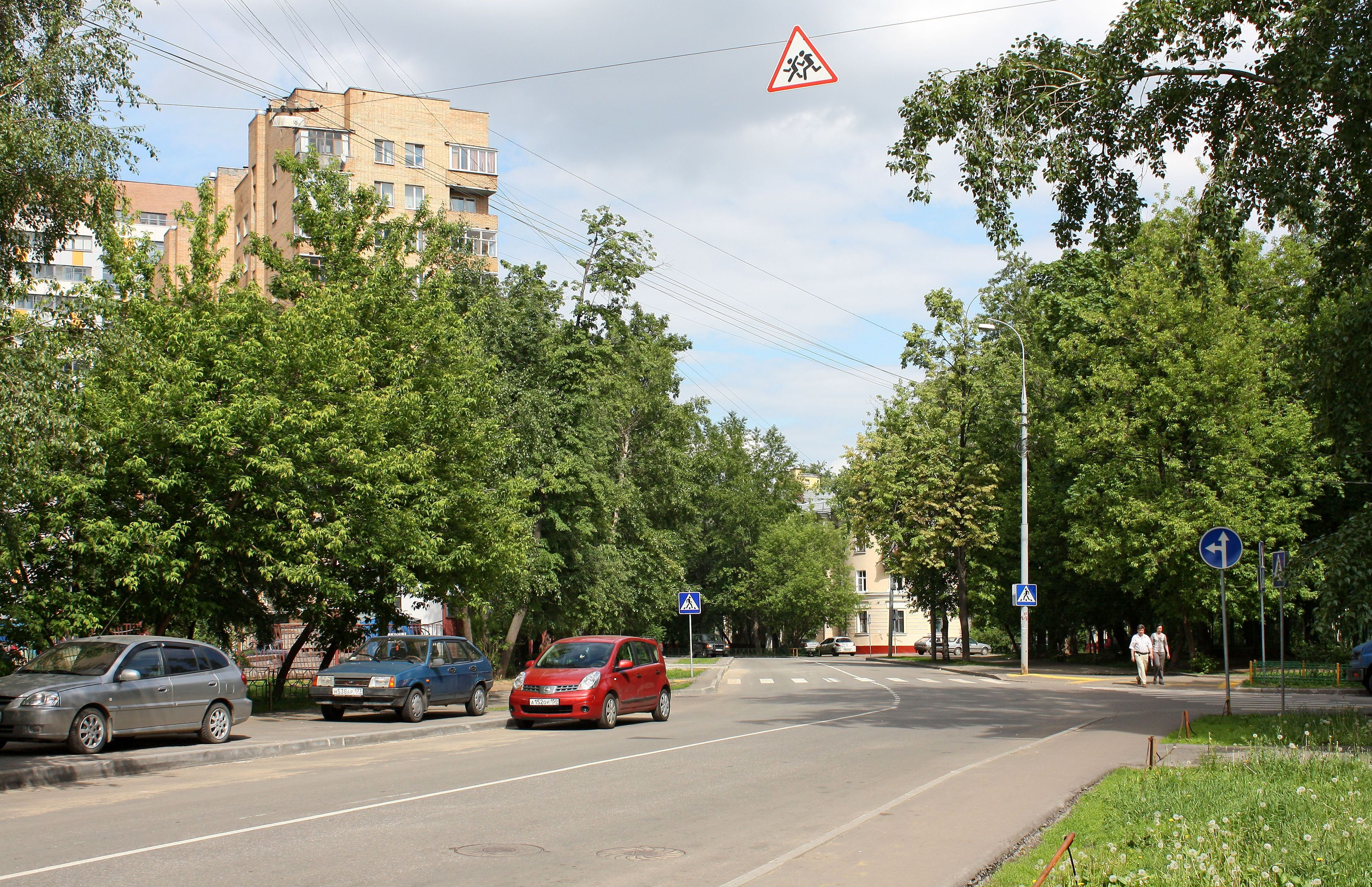 Moscow. Marshal Konev street. A view from outside Raspletina street